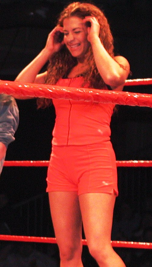 Nidia Guenard at WWF Axxess in Toronto, ON in March 2002.